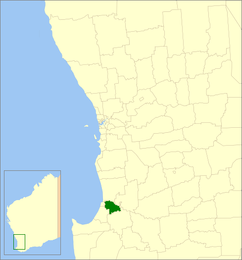 Description=Location of the Local Government Area in Western Australia